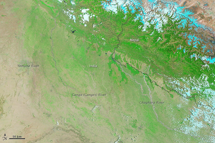 In mid-June 2013, unusually severe monsoon rain caused devastating flooding in northern India and Nepal. By June 21, news outlets reported at least 600 people dead and tens of thousands stranded or missing in rugged, inaccessible terrain on the edge of the Himalayas. Extremely high waters, particularly in the state of Uttarakhand, undermined roads and houses, while landslides wiped out others. The Moderate Resolution Imaging Spectroradiometer (MODIS) on NASA’s Aqua satellite observed the flooding on June 21, 2013 (top). For comparison, the lower image shows the same area on May 30, 2013. These false-color images use a combination of visible and infrared light to make it easier to distinguish between water and land. Water appears blue and vegetation is bright green. Clouds (lower left) are pale blue-green and cast shadows. Glacier ice and snow in the Himalayas are pale blue to cyan.